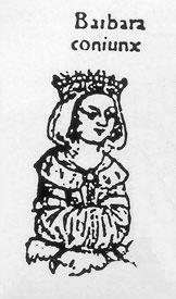 Barbara Zápolya of Hungary, Queen of Poland.